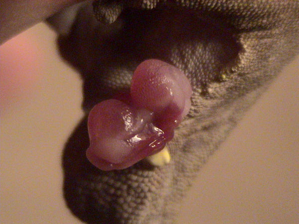 Hemipene of a Rhacodactylus ciliatus (a gecko). Imported from en. Original description: Photographer: LA Dawson Hemipene of a Crested Gecko, Rhacodactylus ciliatus